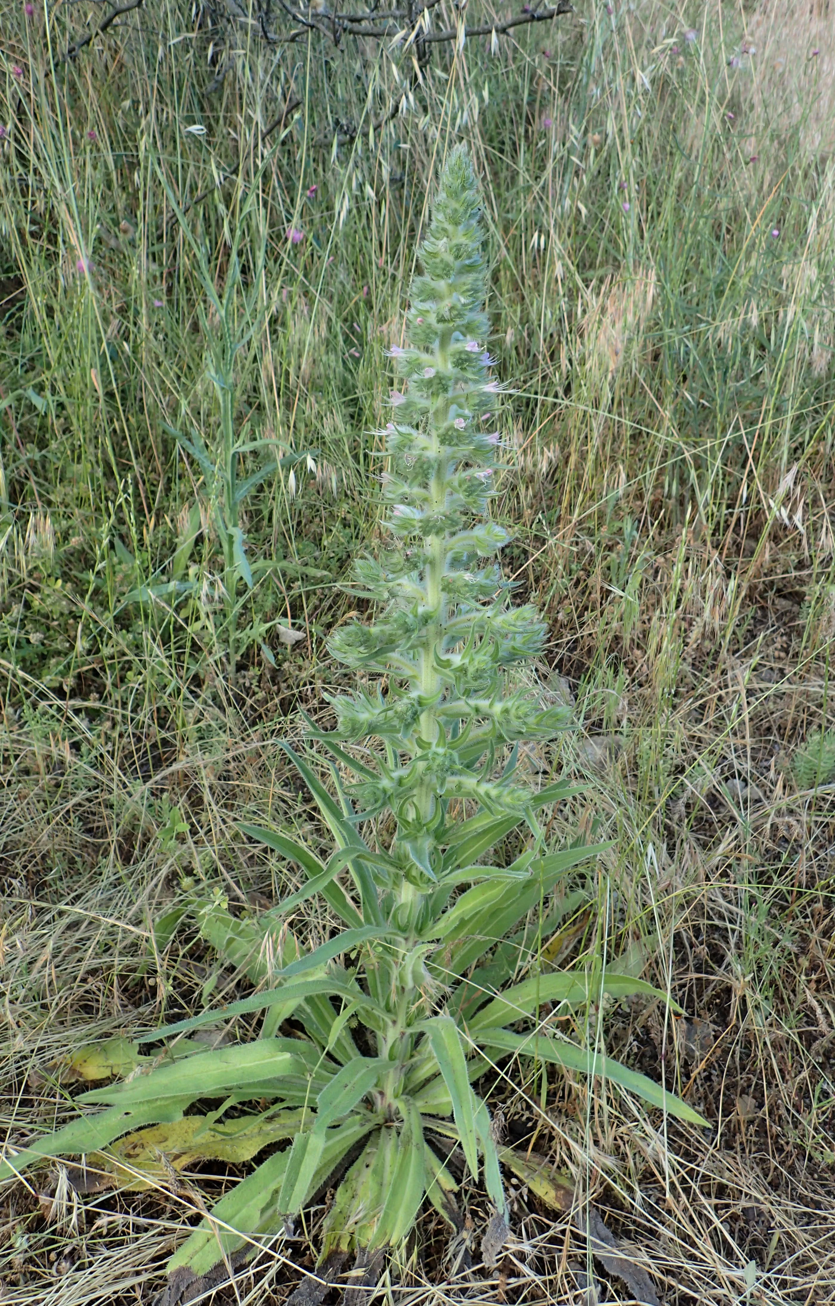 Echium italicum in Tsav, Armenia